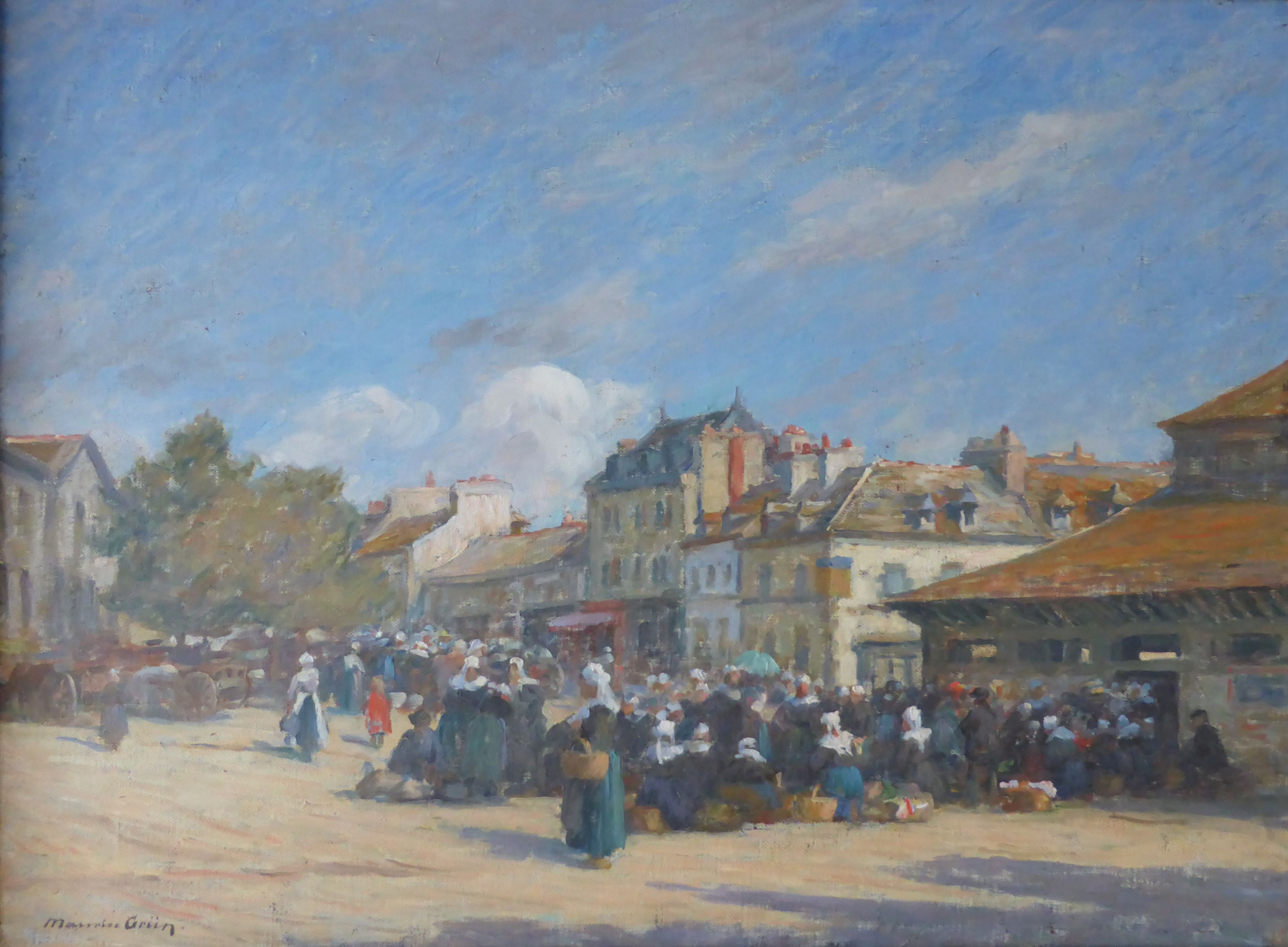 Photograph of a painting by Maurice Grün 1870-1947